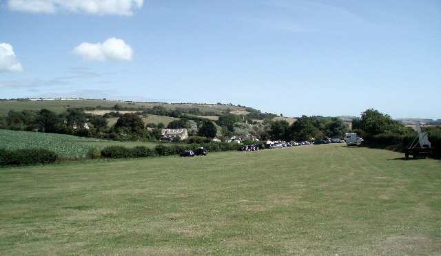 Arreton Manor grounds Arreton Manor apparently has a history dating back to at least 872 AD. This fact is recorded in the Domesday Book. It was also noted in the will of King Alfred the Great in 885. Previously, it had been owned by his mother, Osburga, and her father Oslac, Chief Butler of England. The manor was owned by King Edward before the Norman conquest. After 1086, it was owned by William the Conqueror. In 1100, it was granted to Richard de Redvers, and was part of an endowment given to the monks of the Quarr Abbey by his son Baldwin in 1131 more details from Wikpedia